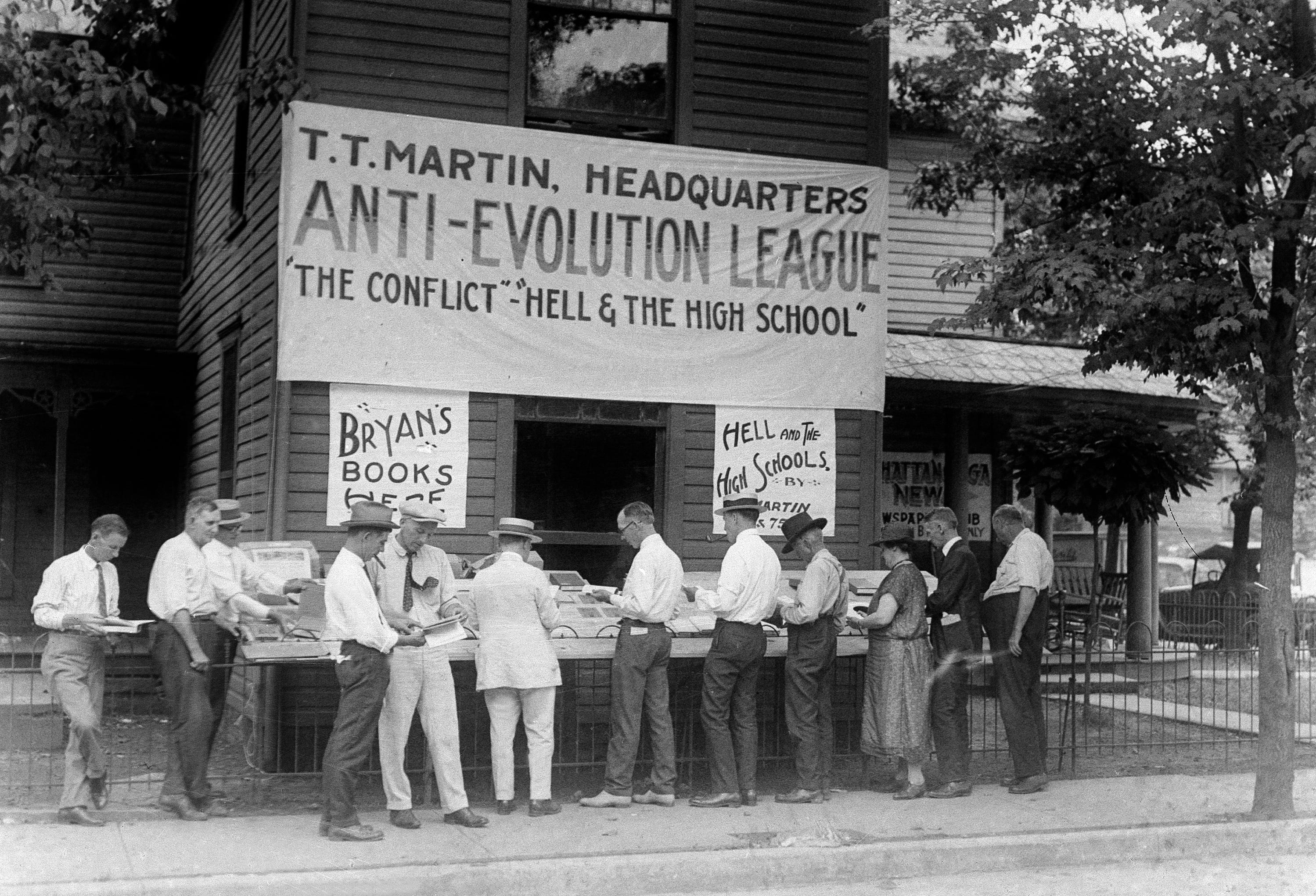 Anti-Evolution League, at the Scopes Trial, Dayton Tennessee From Literary Digest, July 25, 1925